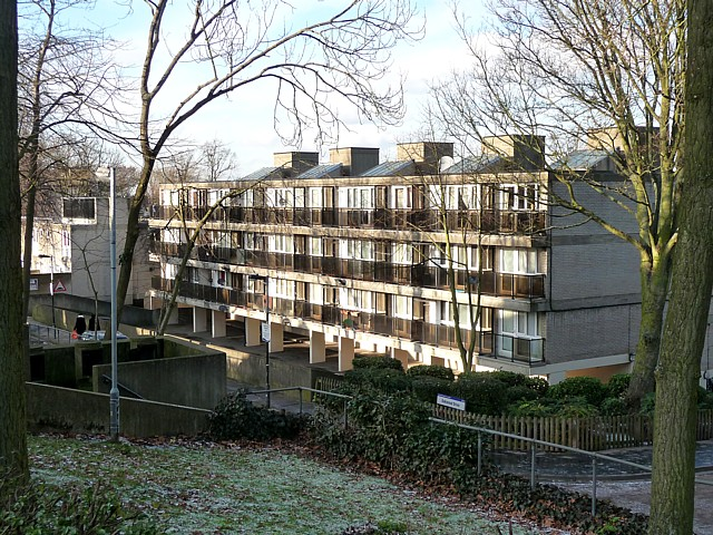 Housing estate, Central Hill One block of a development by Lambeth council in 1967-74 (in the days when local authorities employed architects and built public housing). Pevsner comments that it is "stylistically still very much in the International Modern tradition...with ingenious planning it was possible to give all the flats front doors at ground level, reached by paths along the contours of the hill". The other side affords excellent views towards central London.